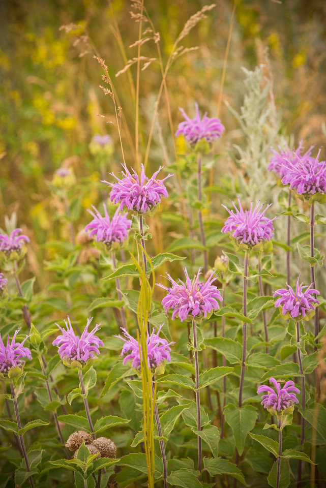 Wild bergamot on K & D Livestock, Inc. rangeland near Stacey, MT. that has undergone forest stand improvement. The Kolka family has participated in the Environmental Quality Incentives Program (EQIP) and Conservation Stewardship Program (CSP). Custer County, MT. June 2017.